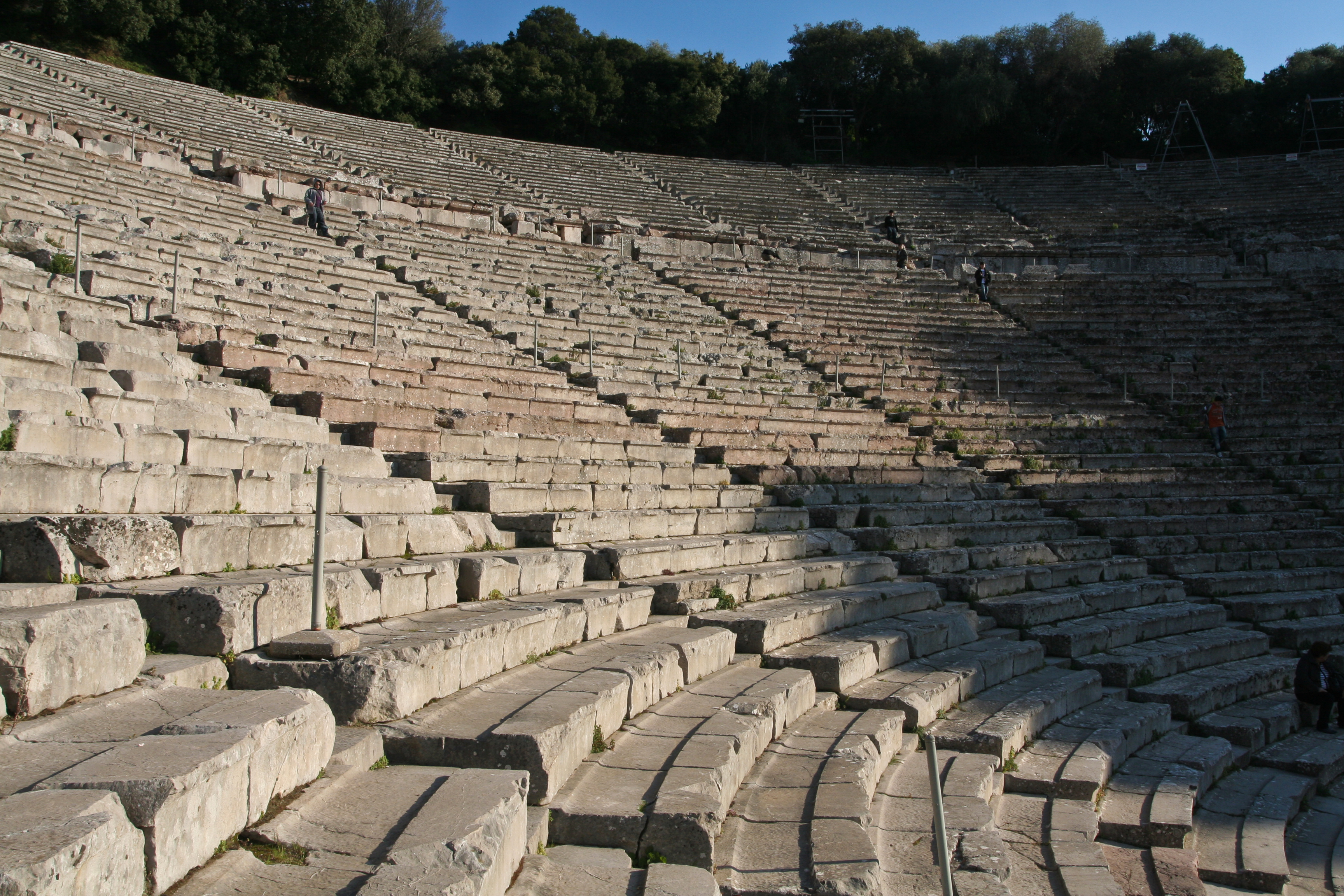 Epidaurus Theater